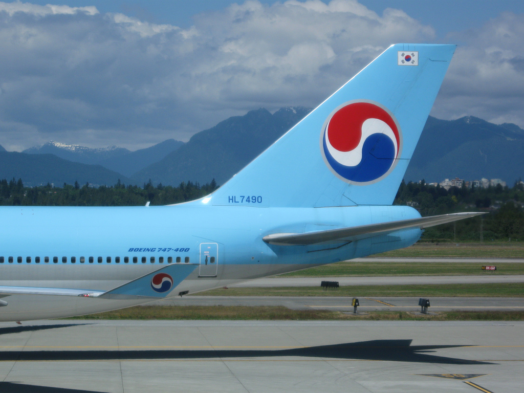 Taegeuk symbol on a Korean Air aircraft at Vancouver International Airport (YVR).